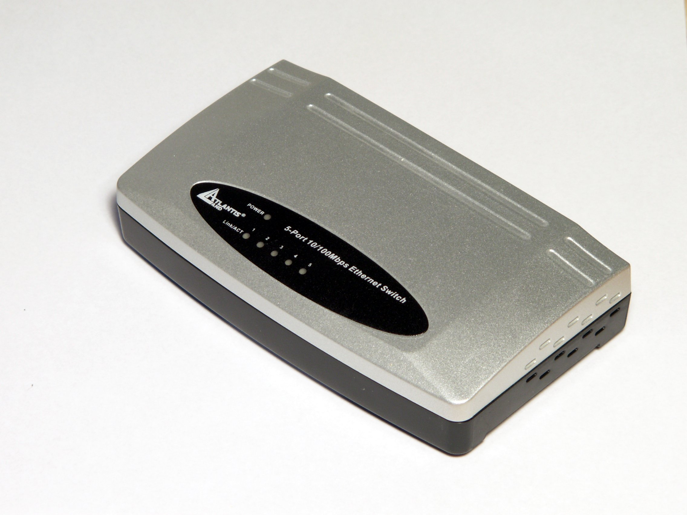 Ethernet switch Atlantis A02-F5P 5 ports frontend